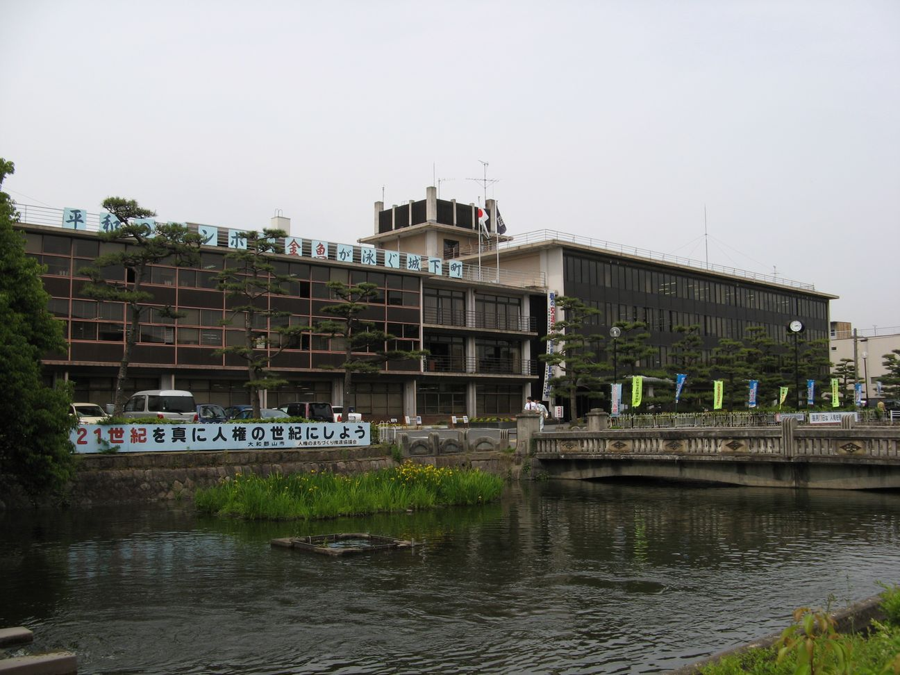 Yamatokoriyama City Hall in Nara Prefecture, Japan